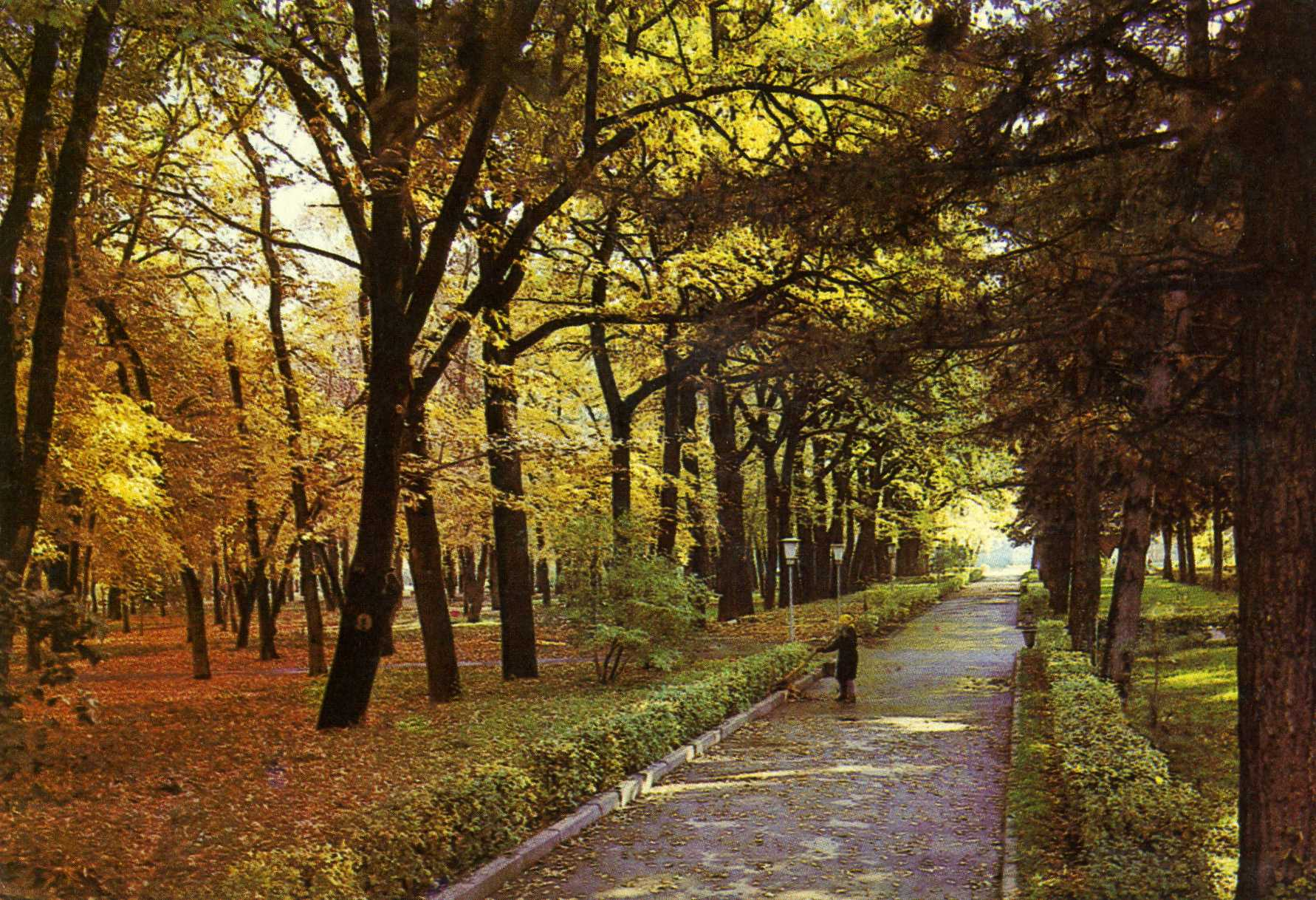 Park named after Panfilov’s 28 guardsmen, 1982 year